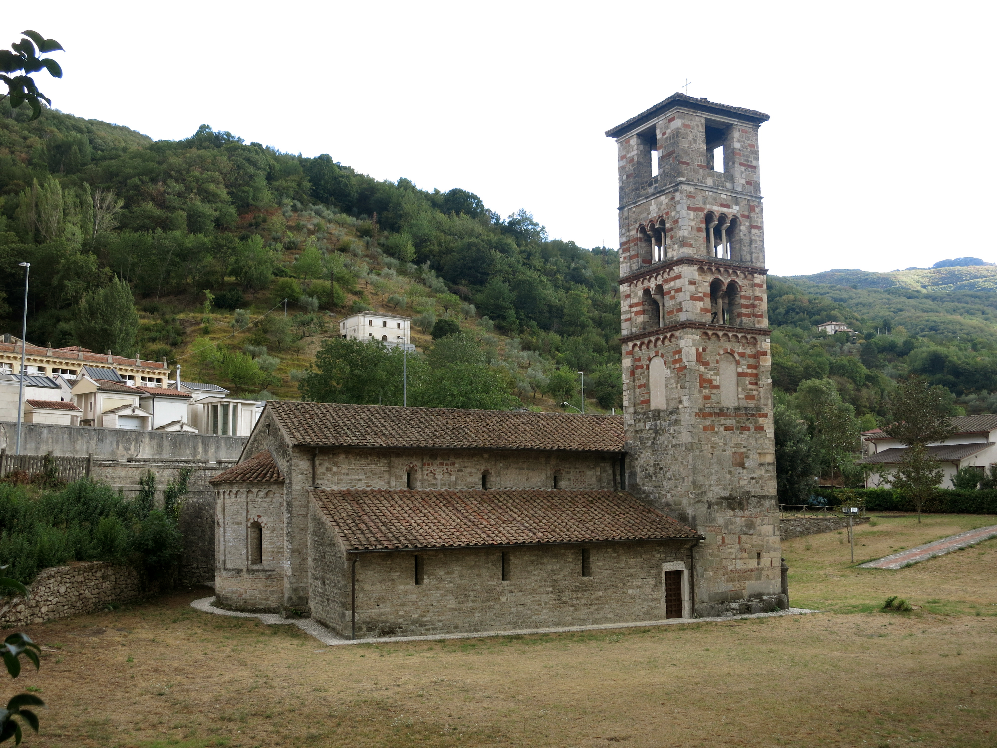 Saint Mary "Extra Moenia" church - Antrodoco (province of Rieti, central Italy)